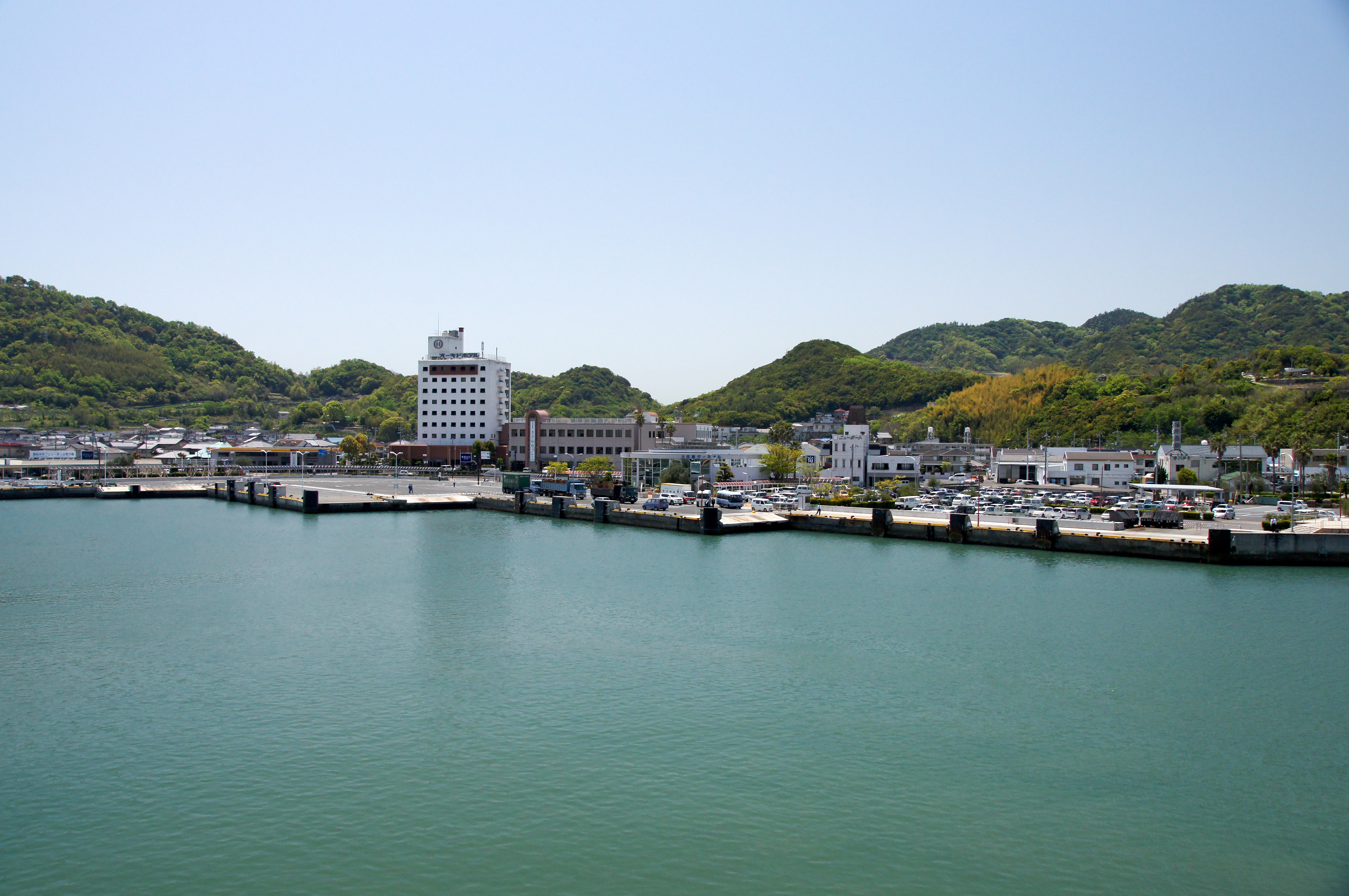 Tonosho Port in Shodo Island, Tonosho, Kagawa Prefecture, Japan